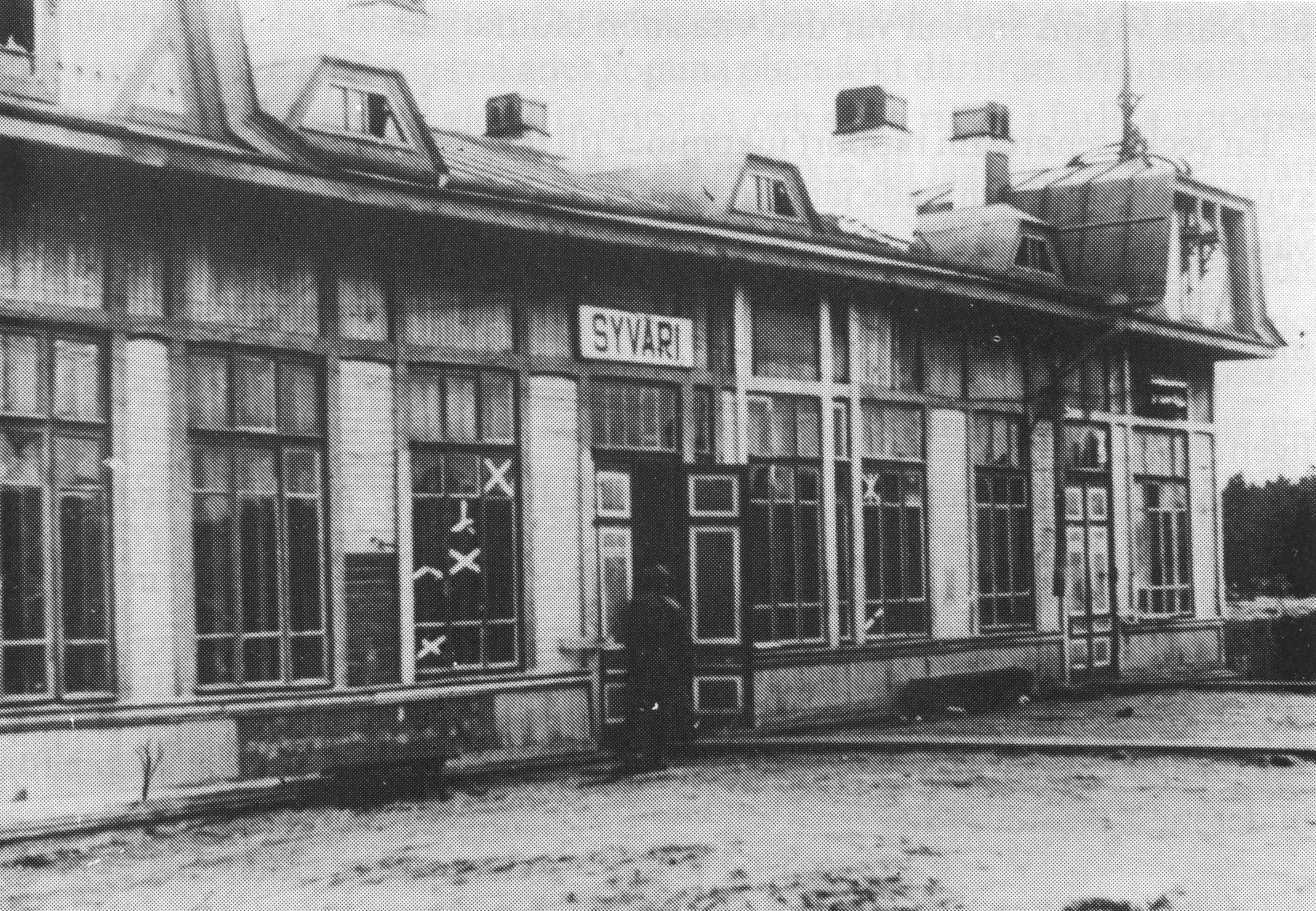 Svir railway station.